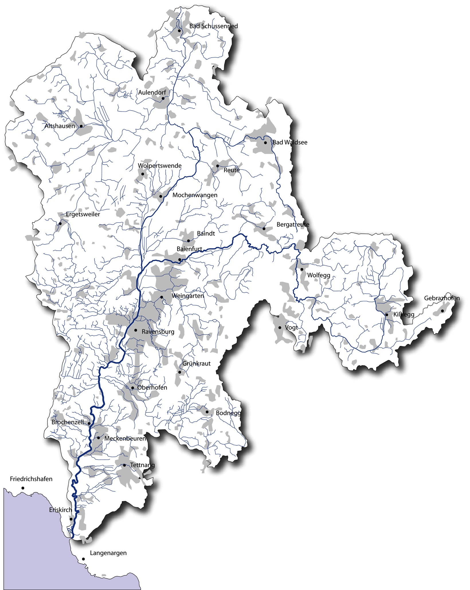 Germany - Baden-Württemberg: drainage basin of river Schussen